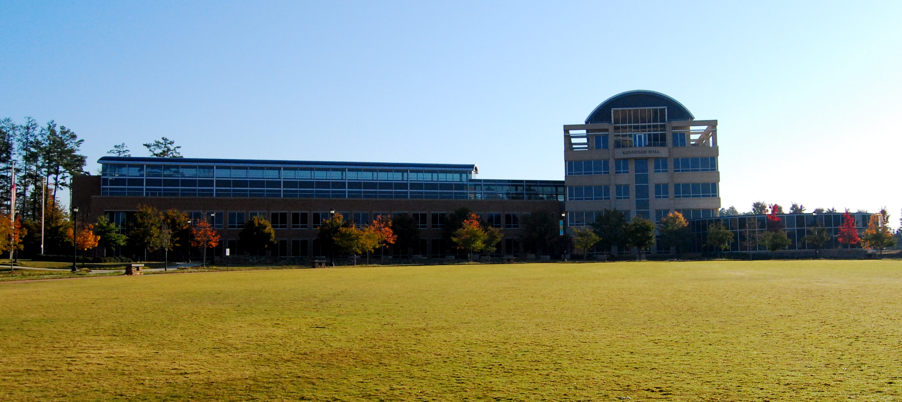 Kennesaw State University Kennesaw Hall Building taken from the campus green.